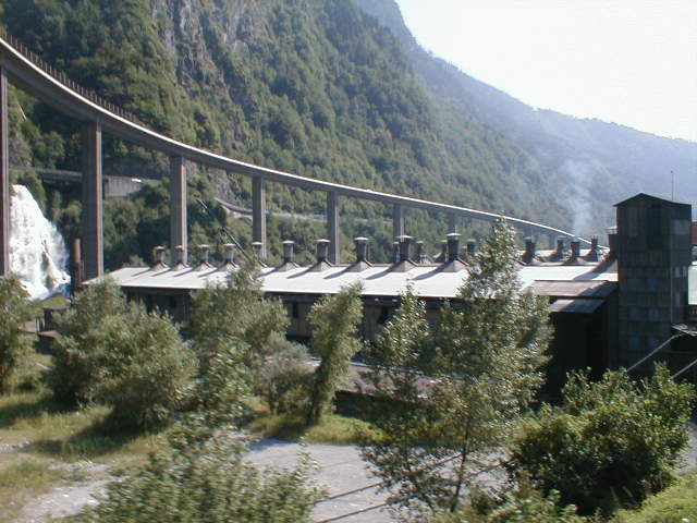 The Péchiney factory in Chedde, Haute-Savoie, France.